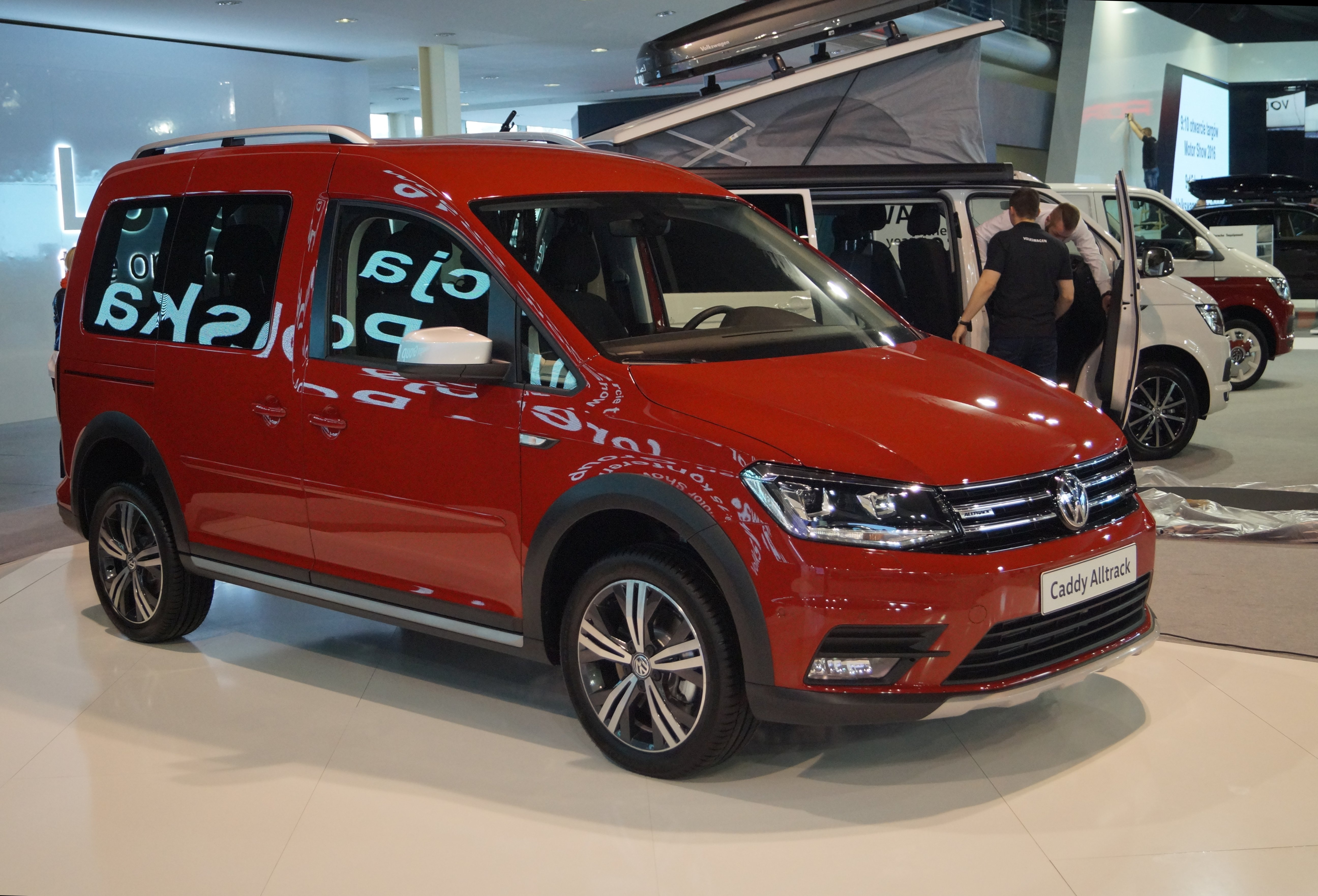 The making of this document was supported by Wikimedia Polska Association, within Wikigrant no. WG 2016-10. Volkswagen Caddy Alltrack na Motor Show Poznań 2016